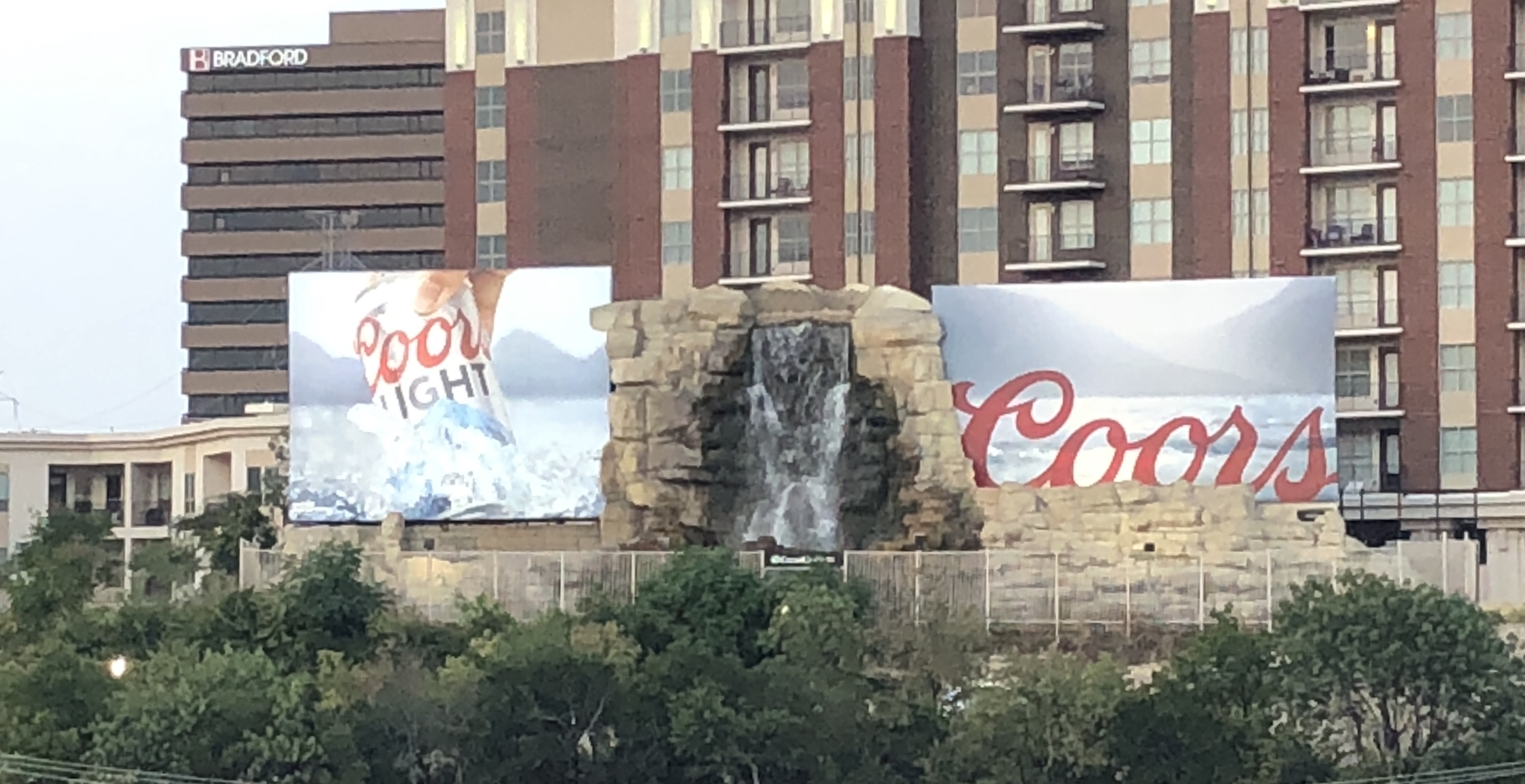 Stemmons highway billboard in Dallas, TX